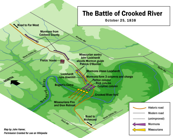 Map of the Battle of Crooked River by John Hamer, permission granted for use on Wikipedia. I assert that this image is original to me and I'm releasing it under the cc2.5 rules. --John Hamer 03:05, 14 February 2006 (UTC)